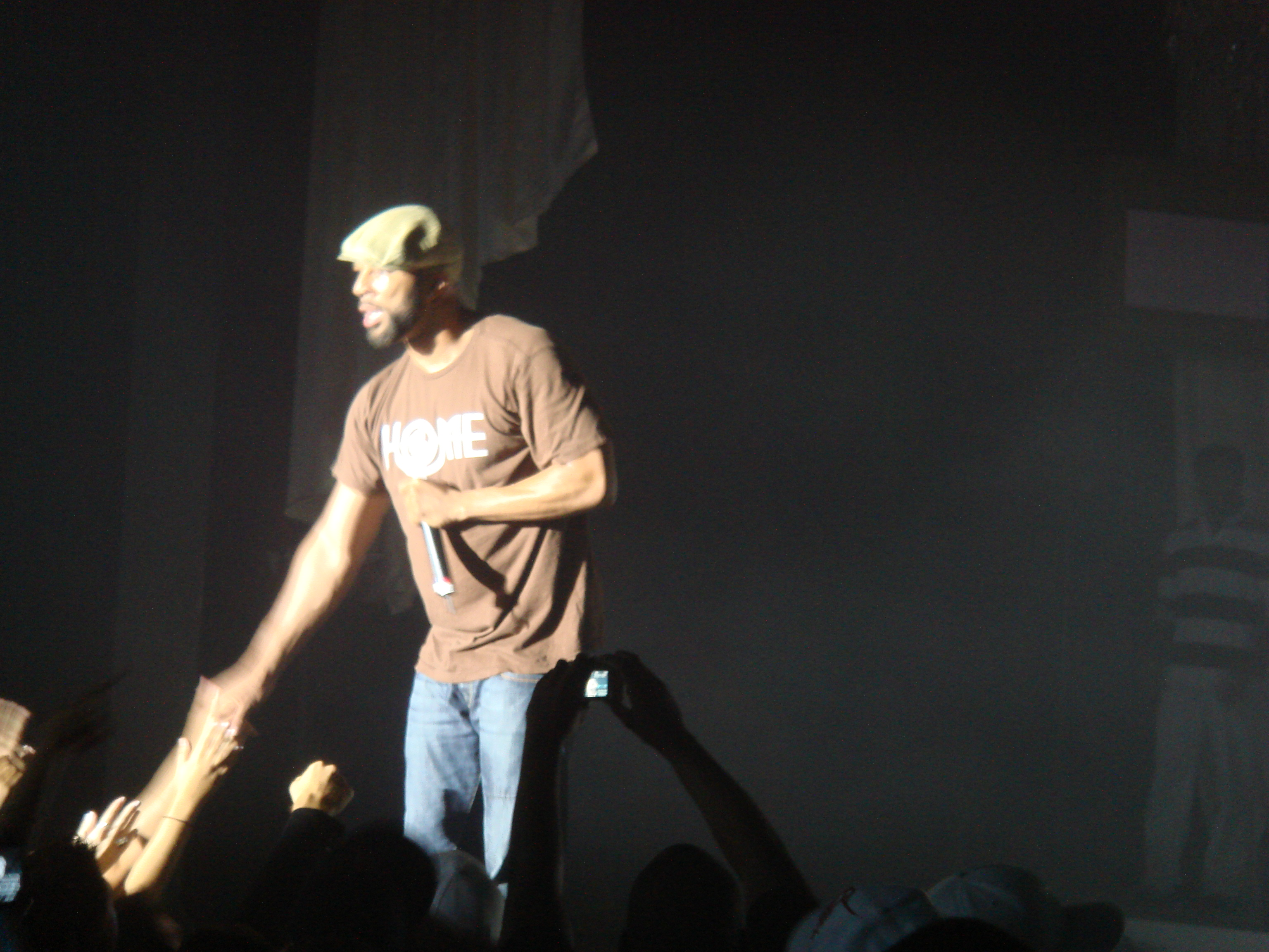 Rapper Common at "American Express presents Kanye West (f. John Legend, Common, and Pharrell)", @ the Nokia Theater in Times Square, New York City